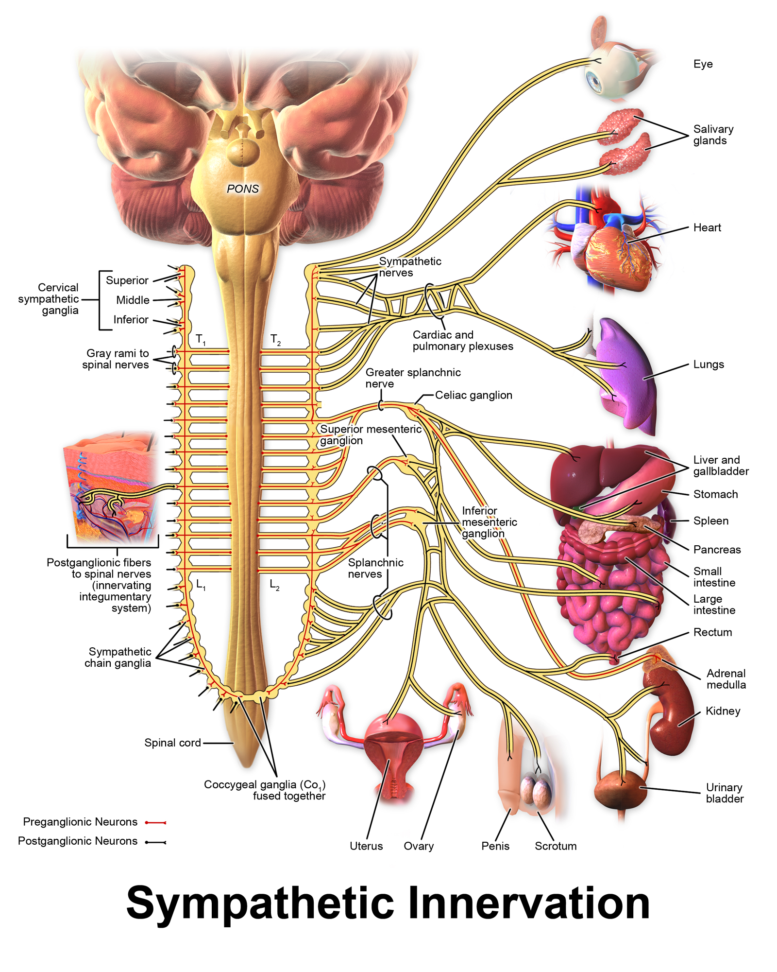 Sympathetic Innervation. See a full animation of this medical topic.